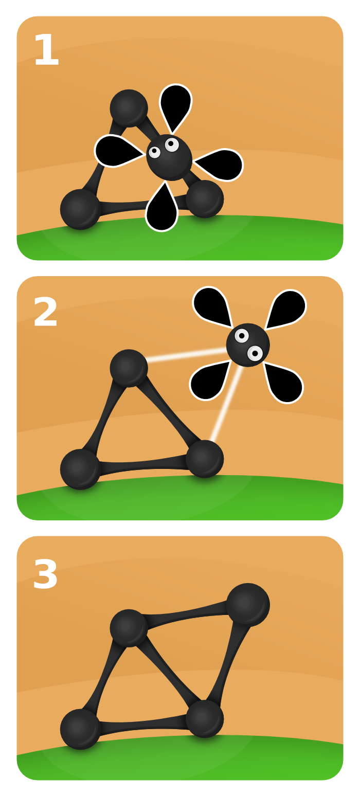 Visual explanation of World of Goo gameplay. This is not screenshots of the game nor ressources from it, but similar drawings to inform how the game works. Made with Inkscape (I will send the SVG as soon as it would be cleaned a bit).